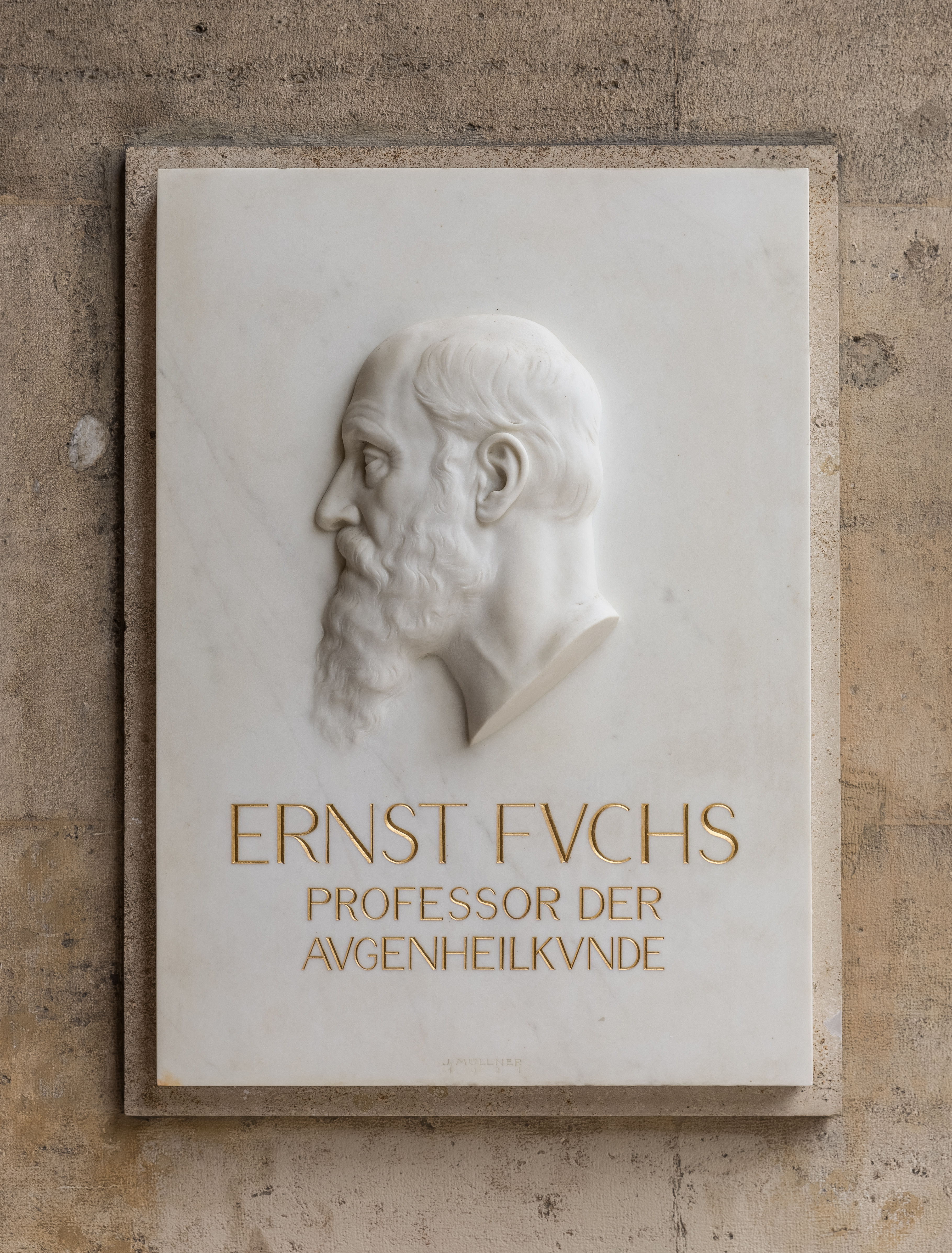 Ernst Fuchs (1851-1930), physician, basrelief (marble) in the Arkadenhof of the University of Vienna, (Maisel# 128). Artist: Josef Müllner (1879-1969), unveiled 1951